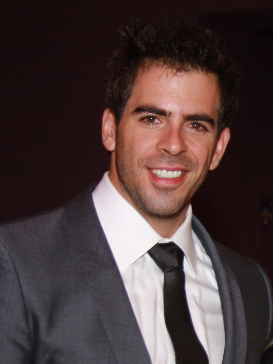 Eli Roth at a premiere for Inglourious Basterds.